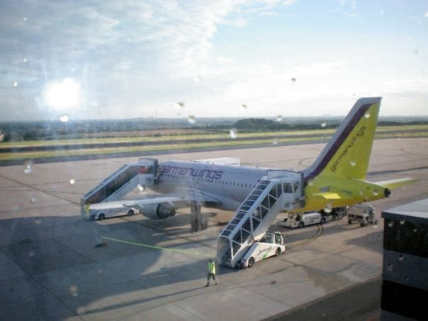 Dortmund Airport